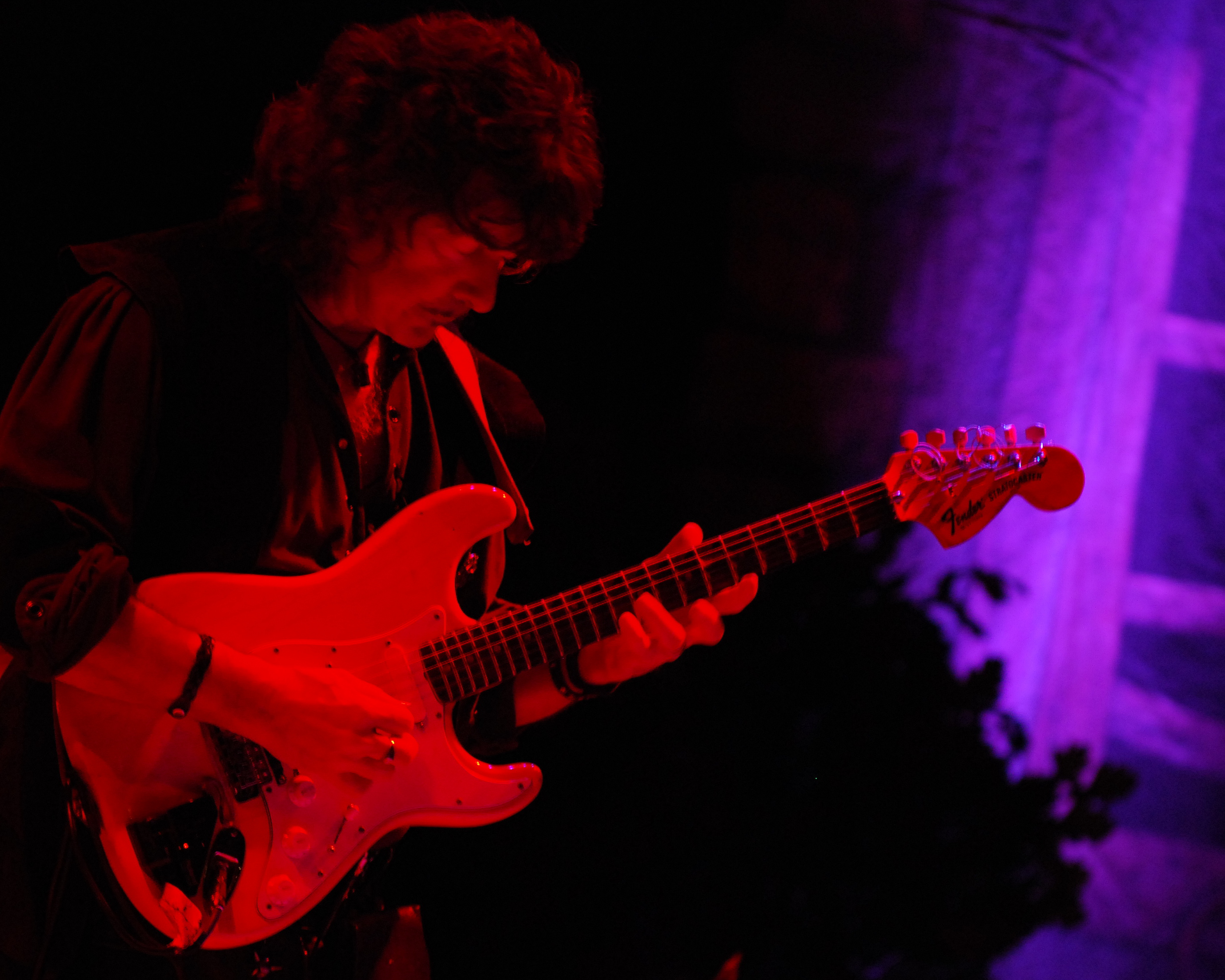 Ritchie Blackmore performing with the Blackmore's Night at the House of Blues, Chicago, IL, USA; October 17, 2009.